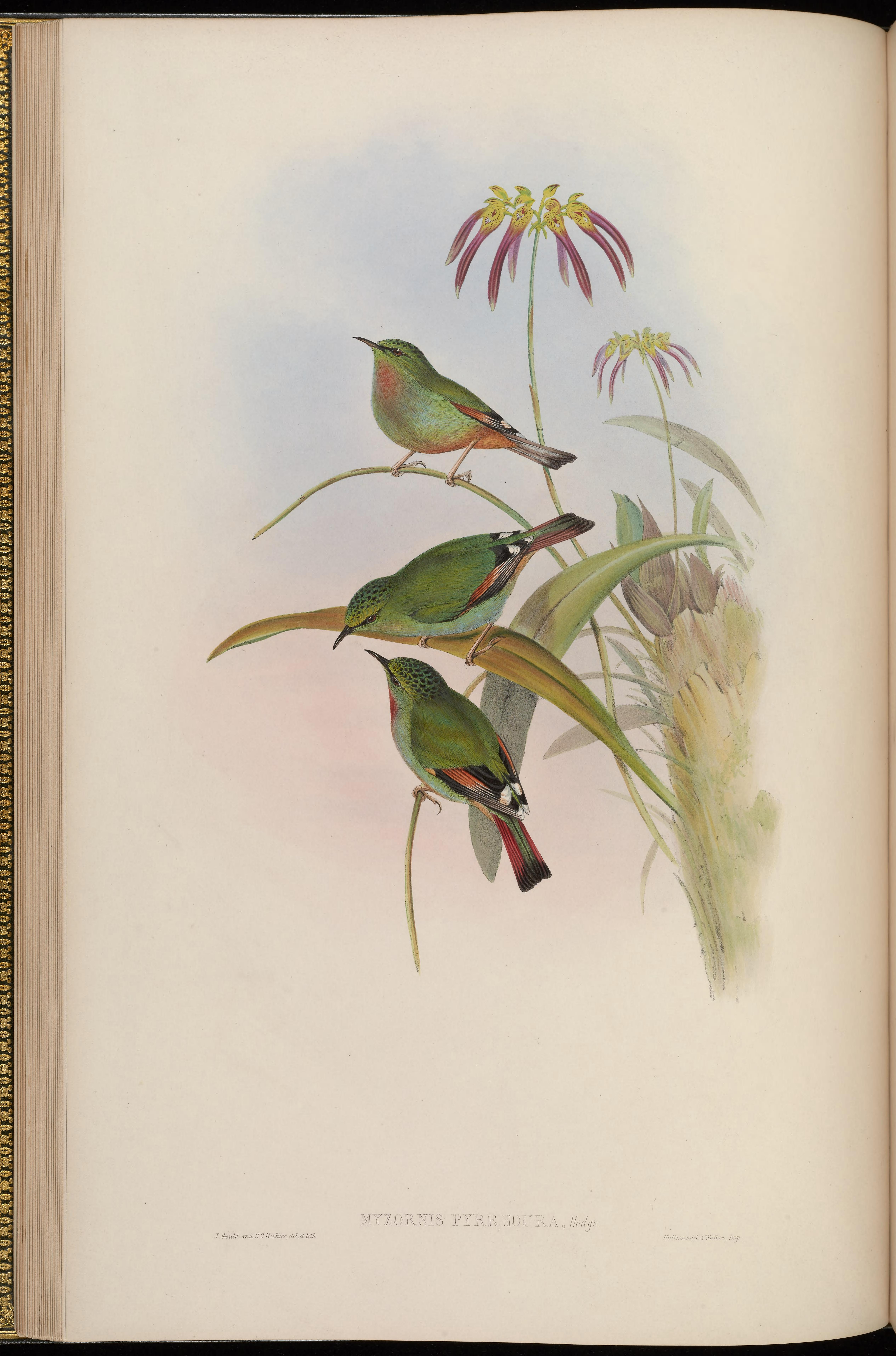 Myzornis pyrrhoura